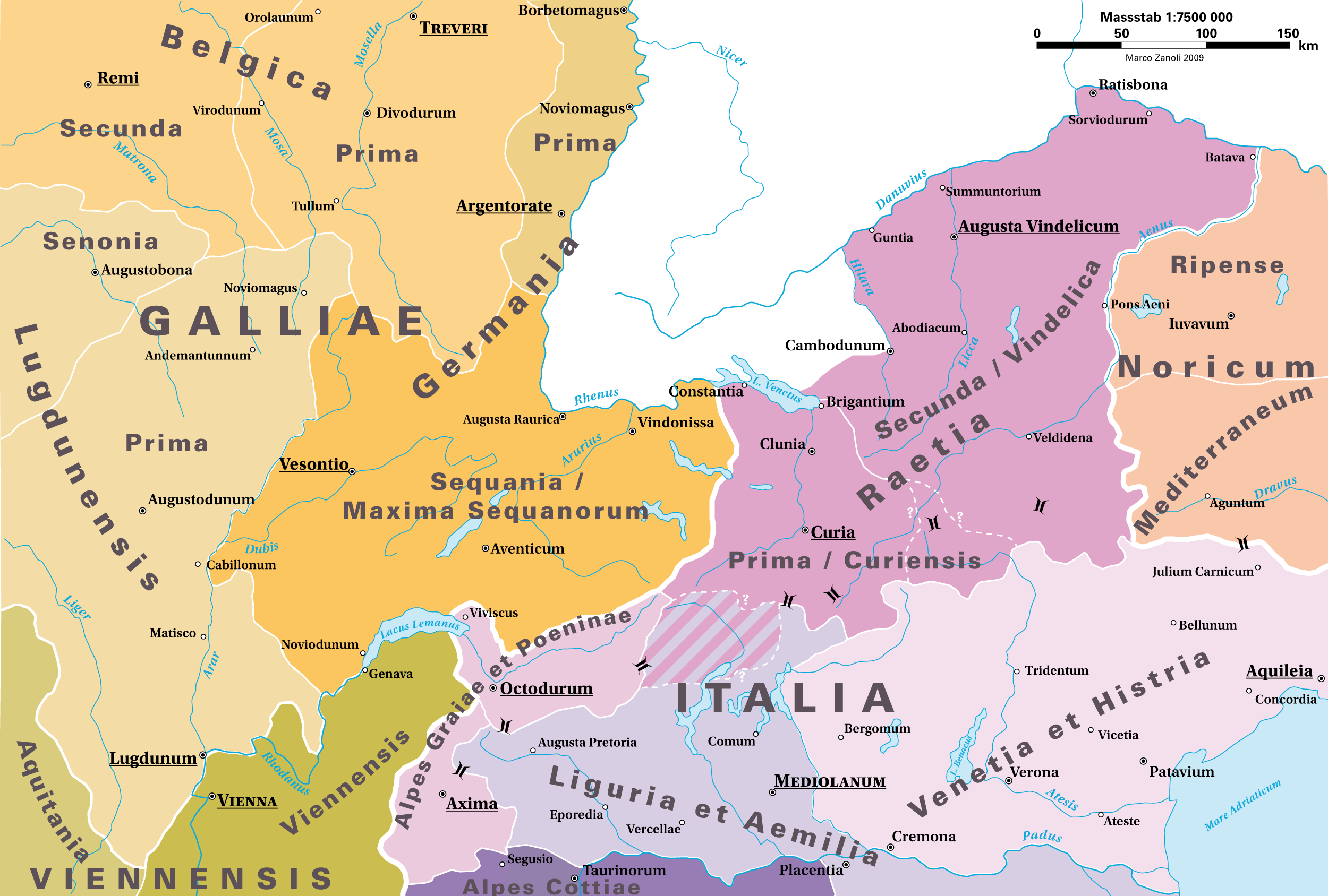 Roman provinces and dioceses and roads in the Alps around 395 AC